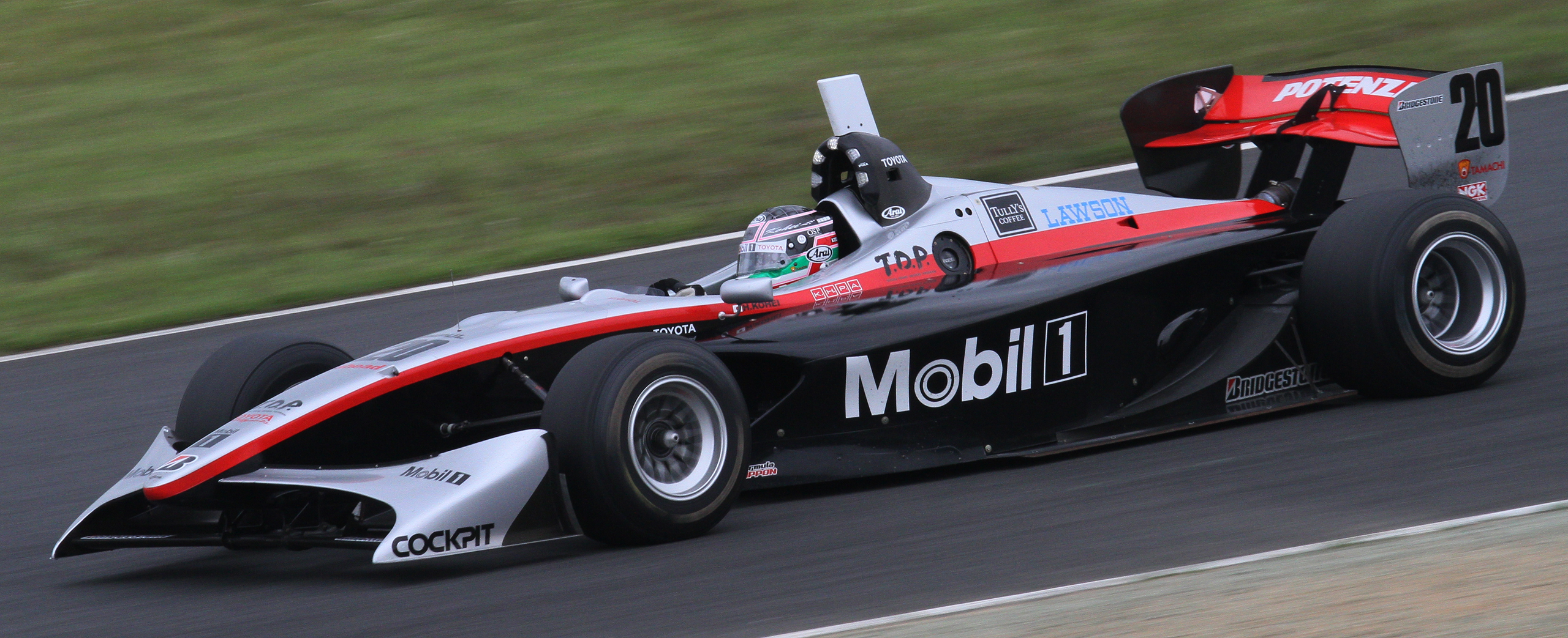 Formula Nippon 2010 Rd.2 Motegi: Kohei Hirate (Team Impul) during the Sunday free practice session.